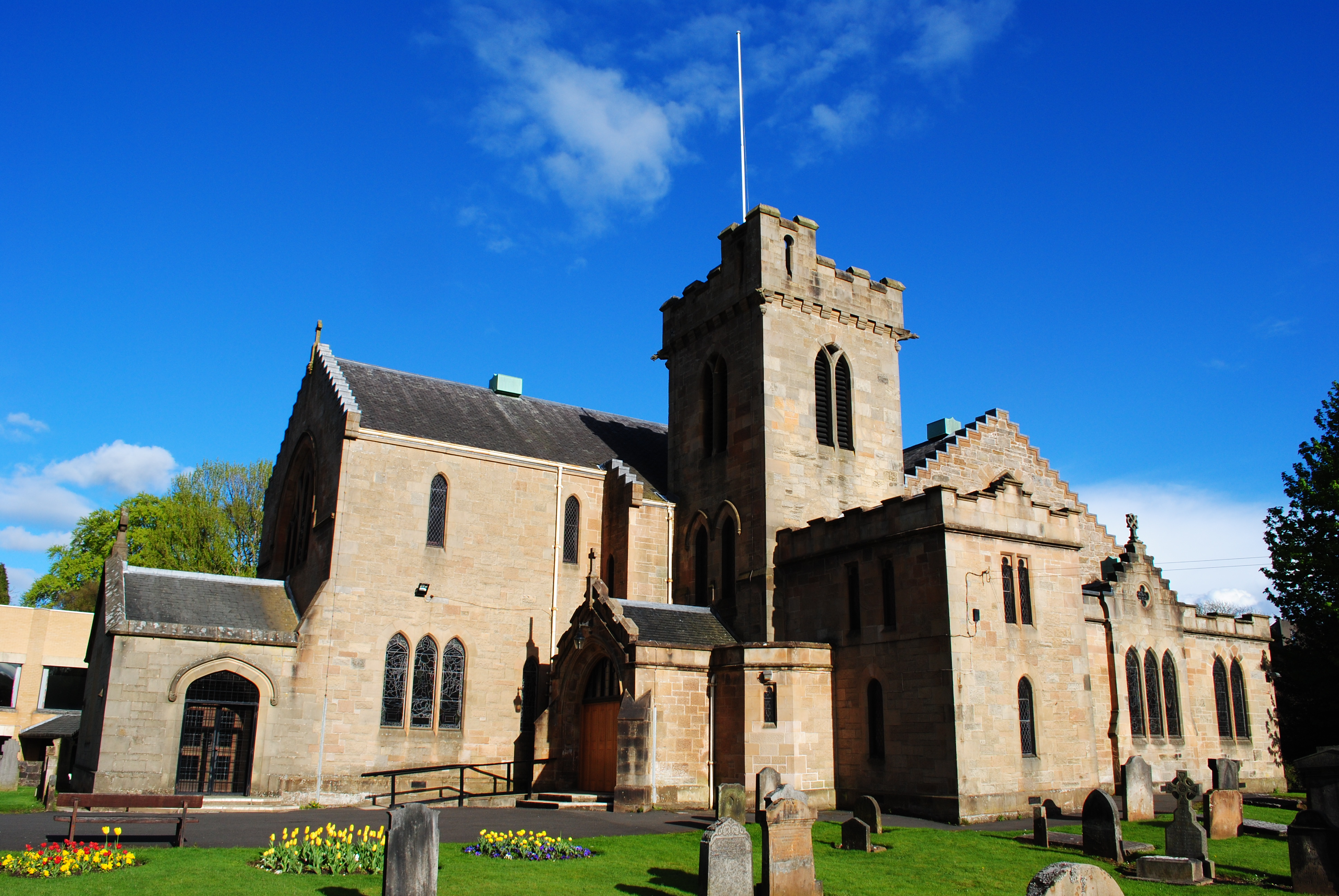 An April 2010 view of New Kilpatrick Parish Church at Bearsden, Scotland.Wikiwayman (talk) 18:50, 30 April 2010 (UTC)